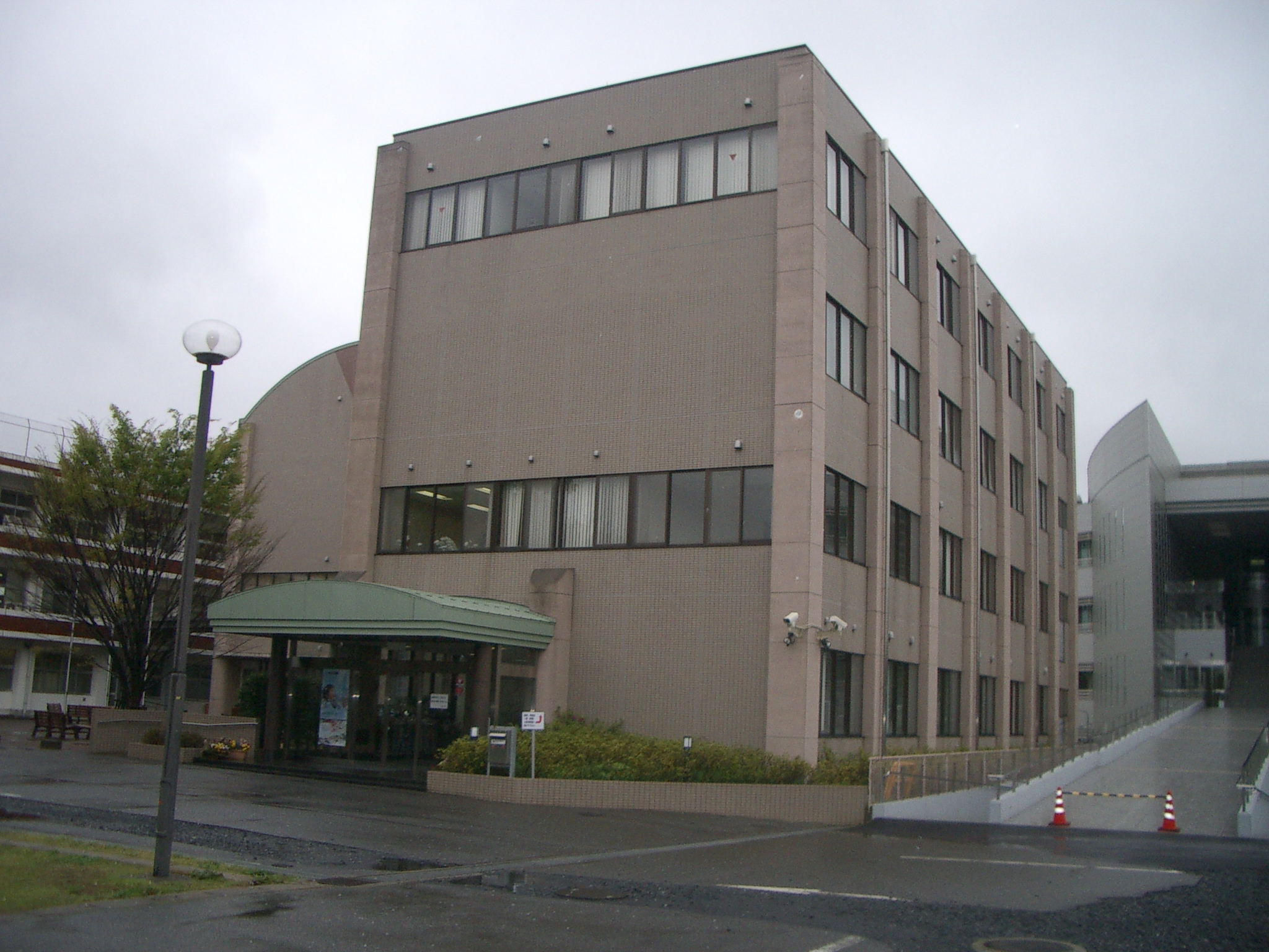 Uekusa Gakuen Junior College school building